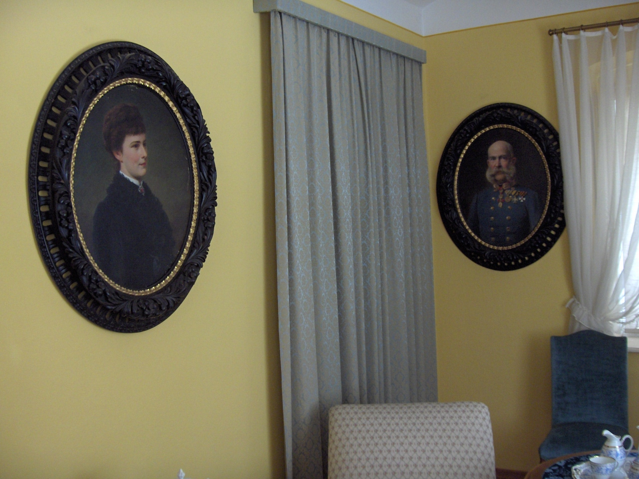 Rest room (with paintings of the emperor Franz Joseph I and the empress Elisabeth); Mayerling, scene of the drama with Crown Prince Rudolph of Austria